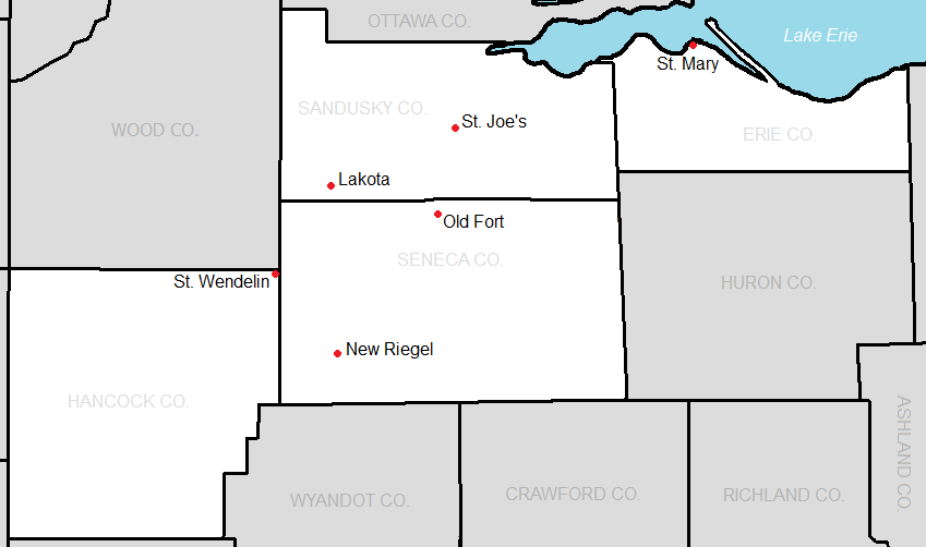 Map showing the members of the Sandusky River League in Ohio.